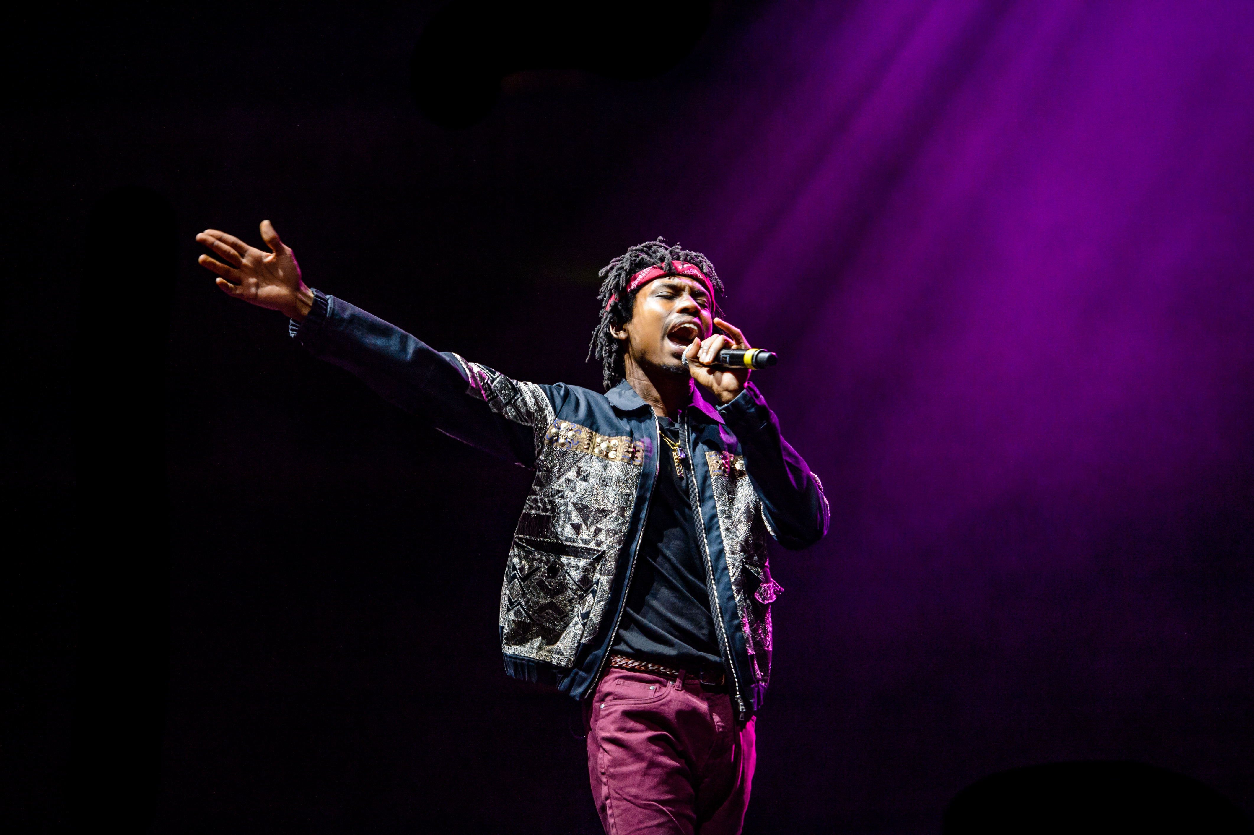 Raury supporting Macklemore & Ryan Lewis - This Unruly Mess I've Made Tour; Westfalenhallen Dortmund